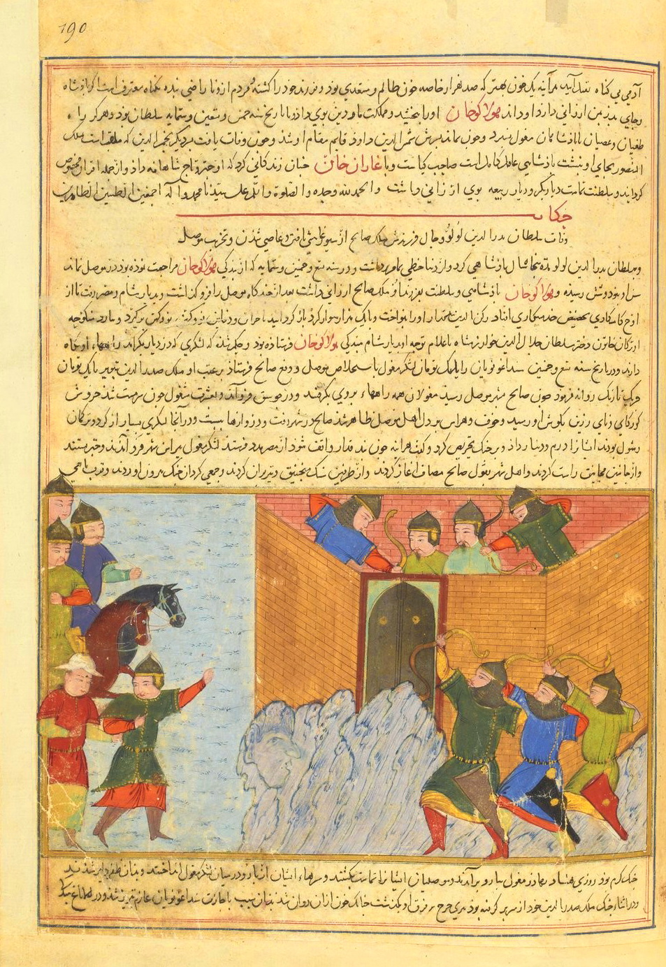 Siege of Mosul (1261–1262)